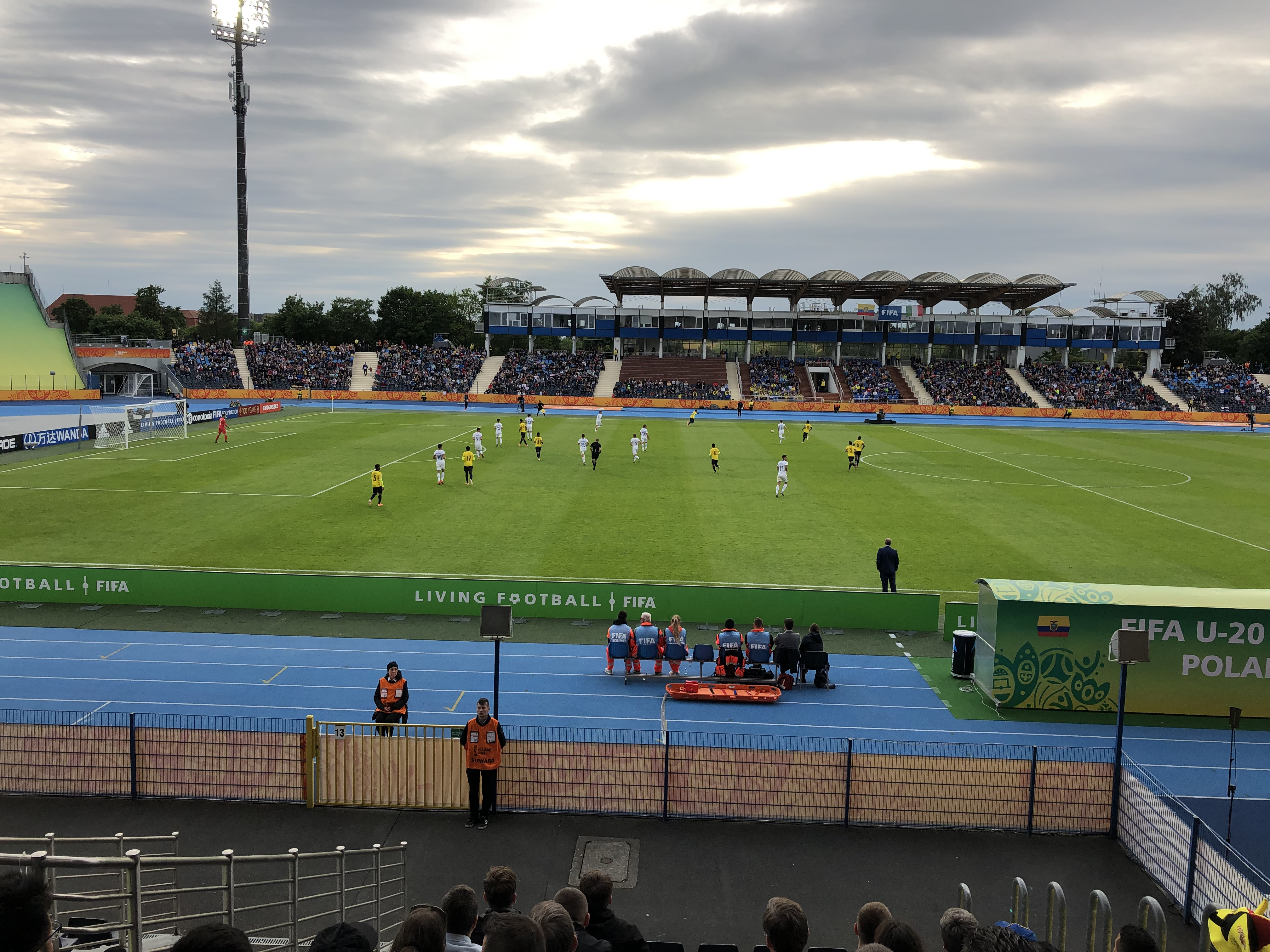 FIFA World Cup 2019 group match between Italy and Ecuador played in Bydgoszcz.